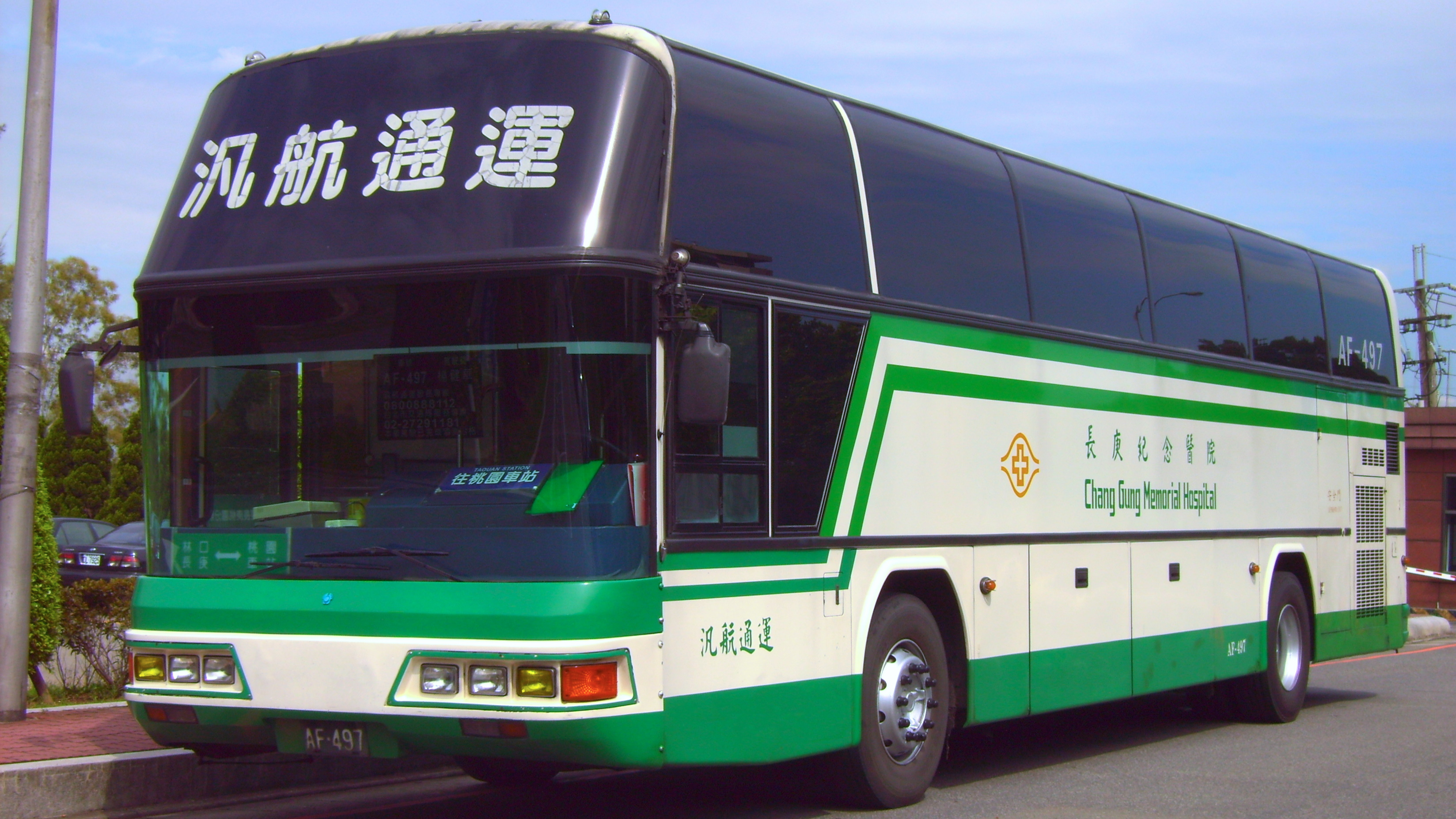 Formosa Fairway Corporation 2rd Generation Bus (SCANIA K113CLB).